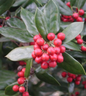 Fruit/berry portion of Dahoon Holly (Ilex cassine)